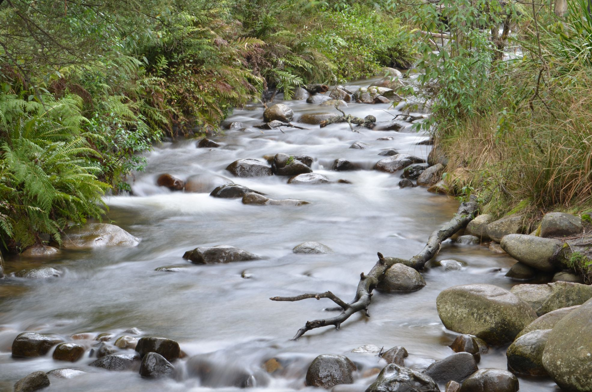 Little River taken at Cathedral Range State Park